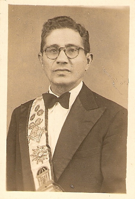 Arquivo Memorial Dr. Romildo Borges Mendes